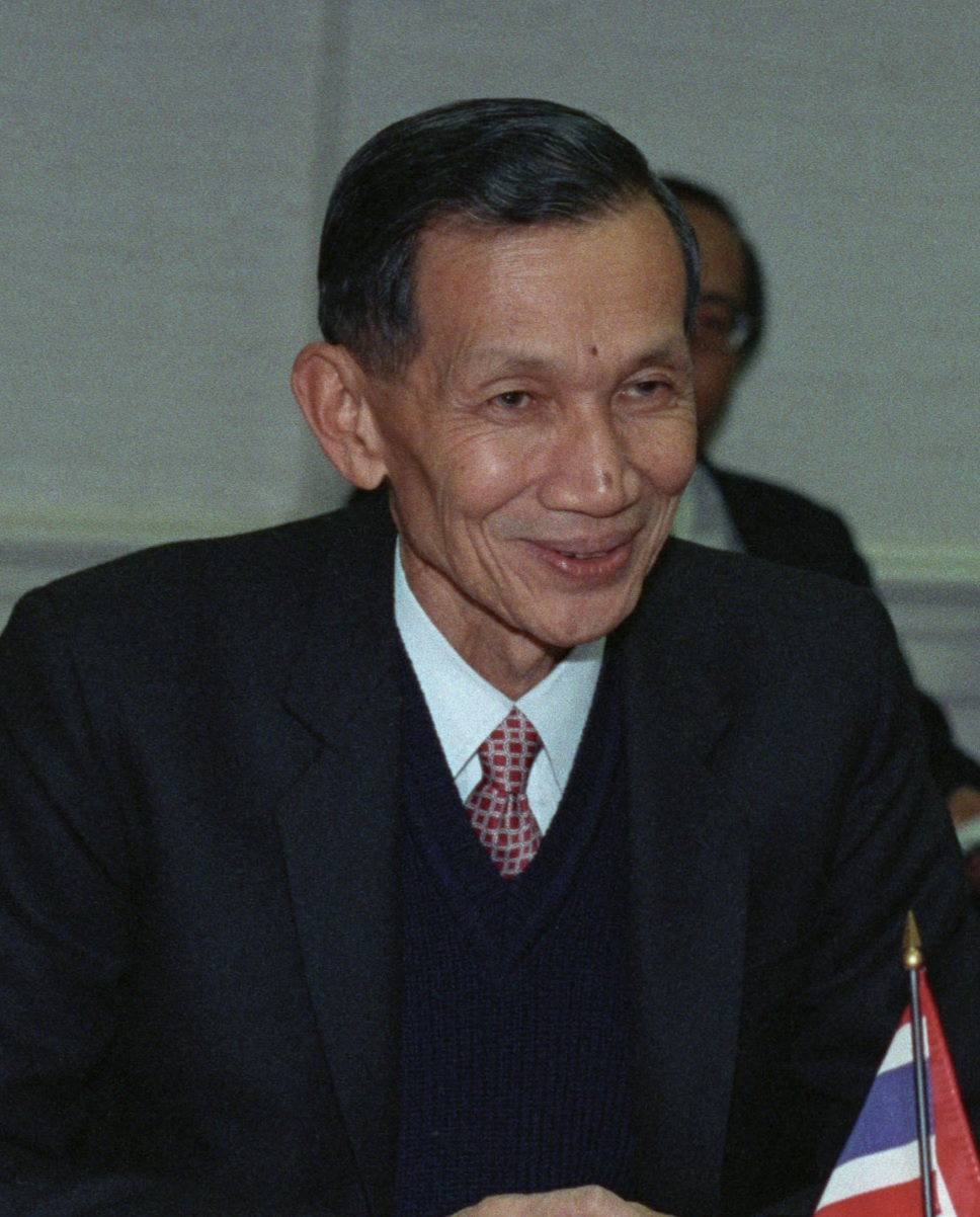 The Honorable William J. Perry (foreground), U.S. Deputy Secretary of Defense, attends a meeting with Prasong Sunsiri, Thai Foreign Minister Squadron Leader, at the Pentagon, Washington, D.C., March 12, 1993. OSD Package No. A07D-00147 (DOD photo by Helene C. Stikkel) (Released), 03/12/1993